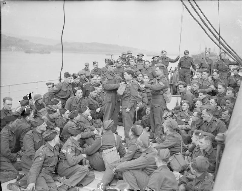 The Narvik Campaign, 1940 Some members of the 1/6th Battalion, Duke of Wellington's Regiment, 147 Brigade, 61st Division, testing gas equipment on board the Polish liner MS Sobieski. She is lying off Gourock and has been used as a troopship for some months. The men will soon be heading off to Norway.